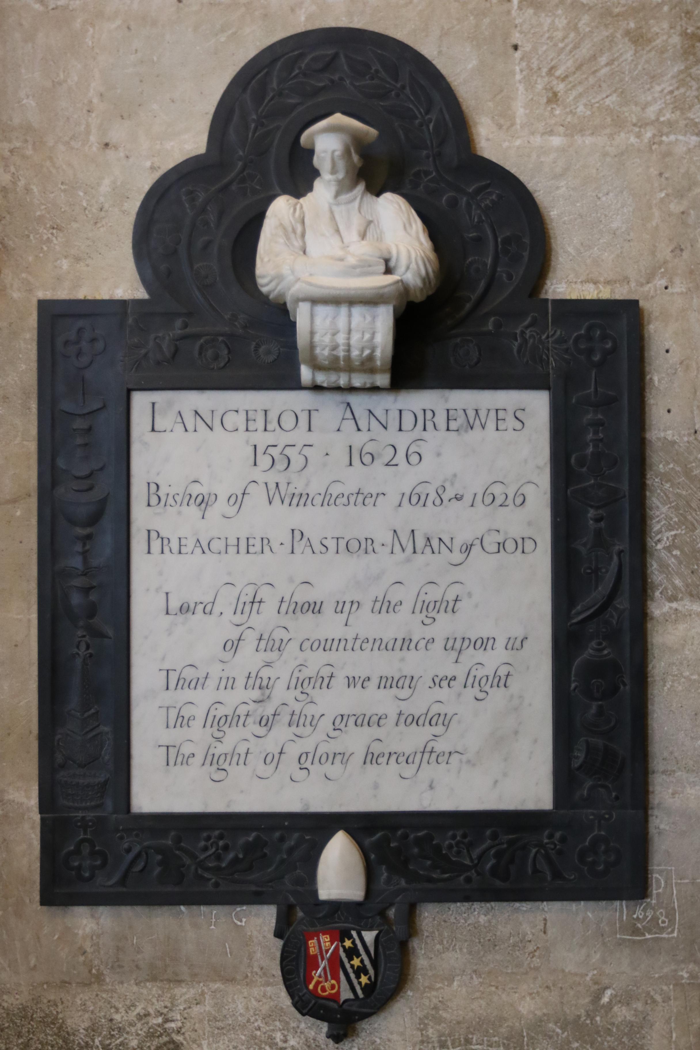 Lancelot Andrewes 1555-1626. Bishop of Winchester